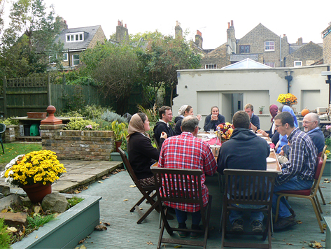 A meal at the Bruderhof in Peckham